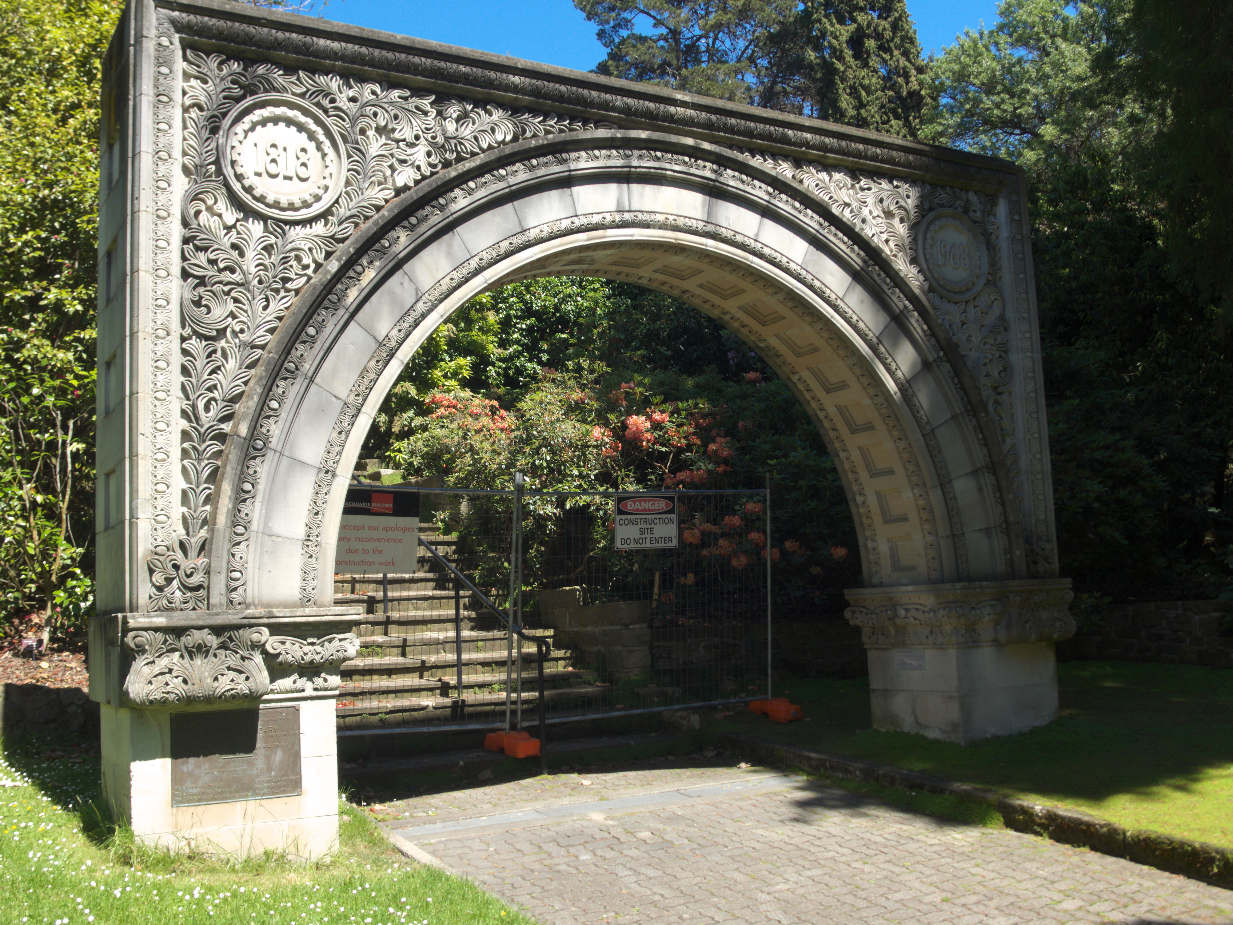 Anniversary arch in the Hobart botanical gardens. It was originally carved in 1913 by Amos Vimpany for the entrance of the Australian Mutual Provident Society's building in Elizabeth Street, at the site of NAB House. After the building was demolished, it was donated to the gardens in 1968 to mark the 150th anniversary of the founding of the gardens in 1818.